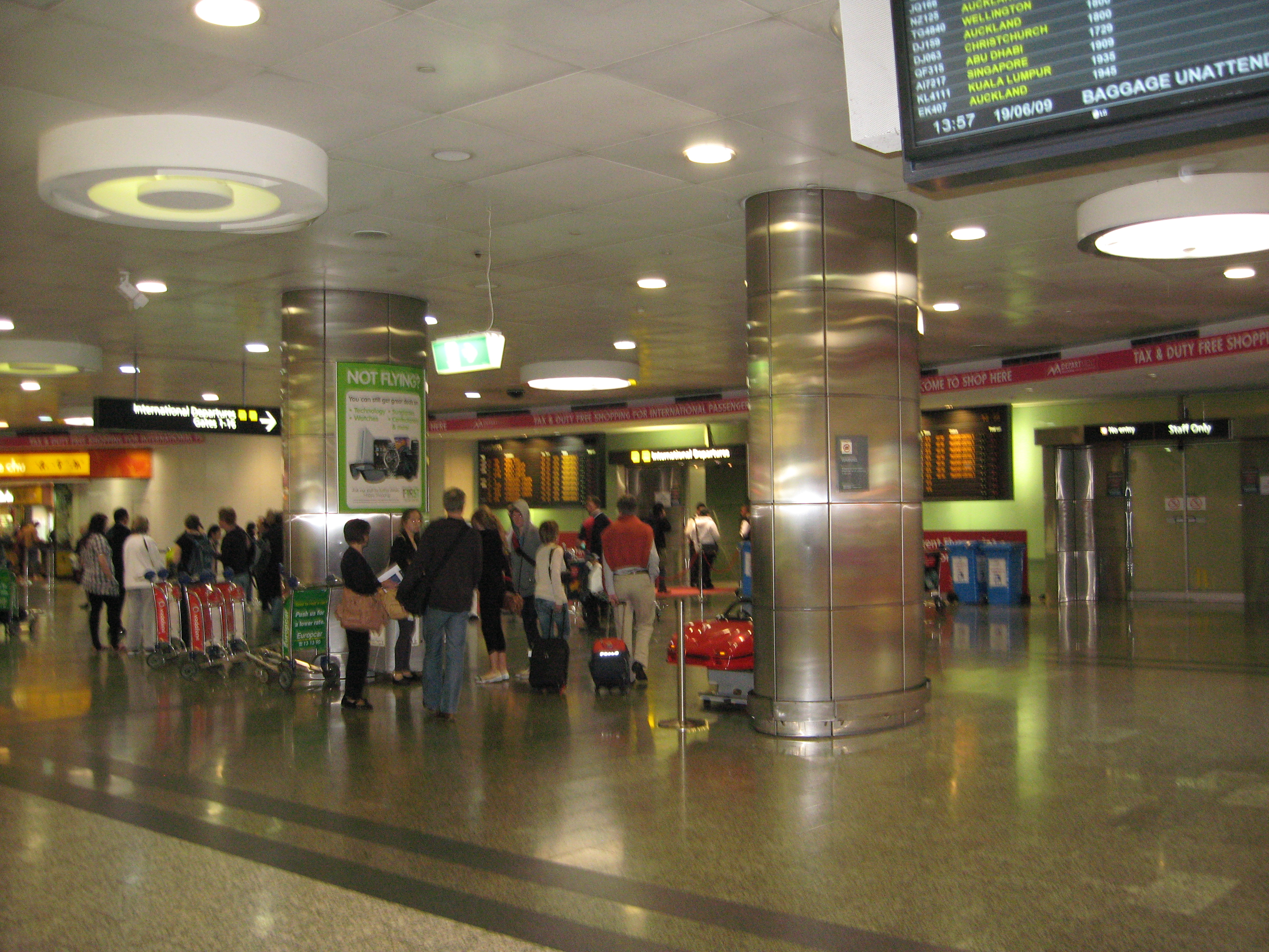 Departure hall at Melbourne airport International terminal.